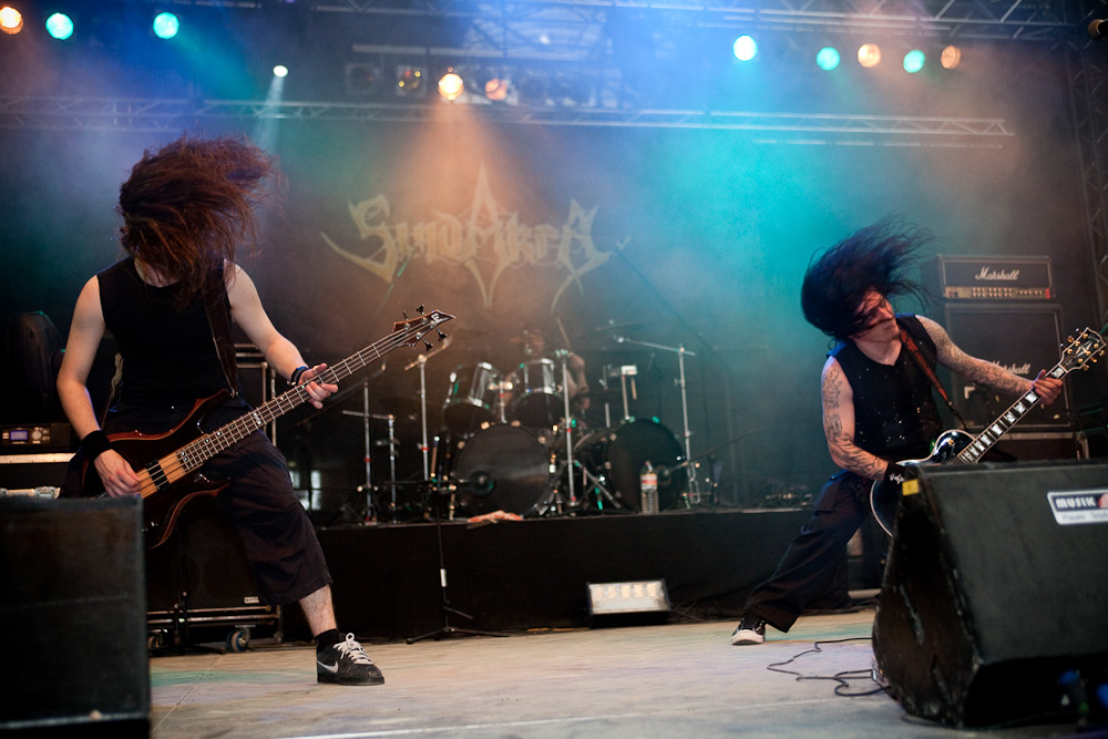 The german Melodic-Death-Metal-Band Suidakra performing live at the Ragnarök Festival 2010 in the Ostbayernhalle in Rieden/Kreuth.